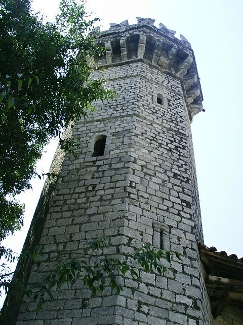 Town of Scutari, main town in northern Albania